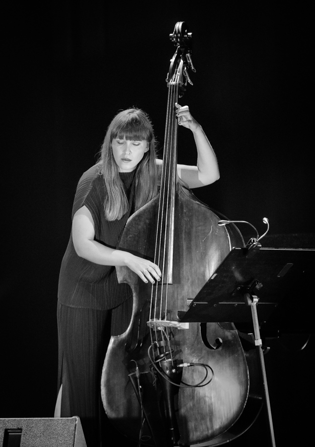 Ellen Andrea Wang at the opening concert of the 2017 Oslo Jazzfestival. The event took place at the main stage in Oslo Opera House on 12. August 2017. Lineup: H.M. Queen Sonja (opening remarks), Manu Katché (drums), Tore Brunborg (saxophone), Ellen Andrea Wang (double bass), Mathias Eick (trumpet), Bugge Wesseltoft (piano), Trygve Seim (saxophone), Jacob Young (guitar), Petter Wettre (saxophone), Edvard Askeland (introduction), Ellen Horn (introduction) and Bjørn Stendahl (award recipient).